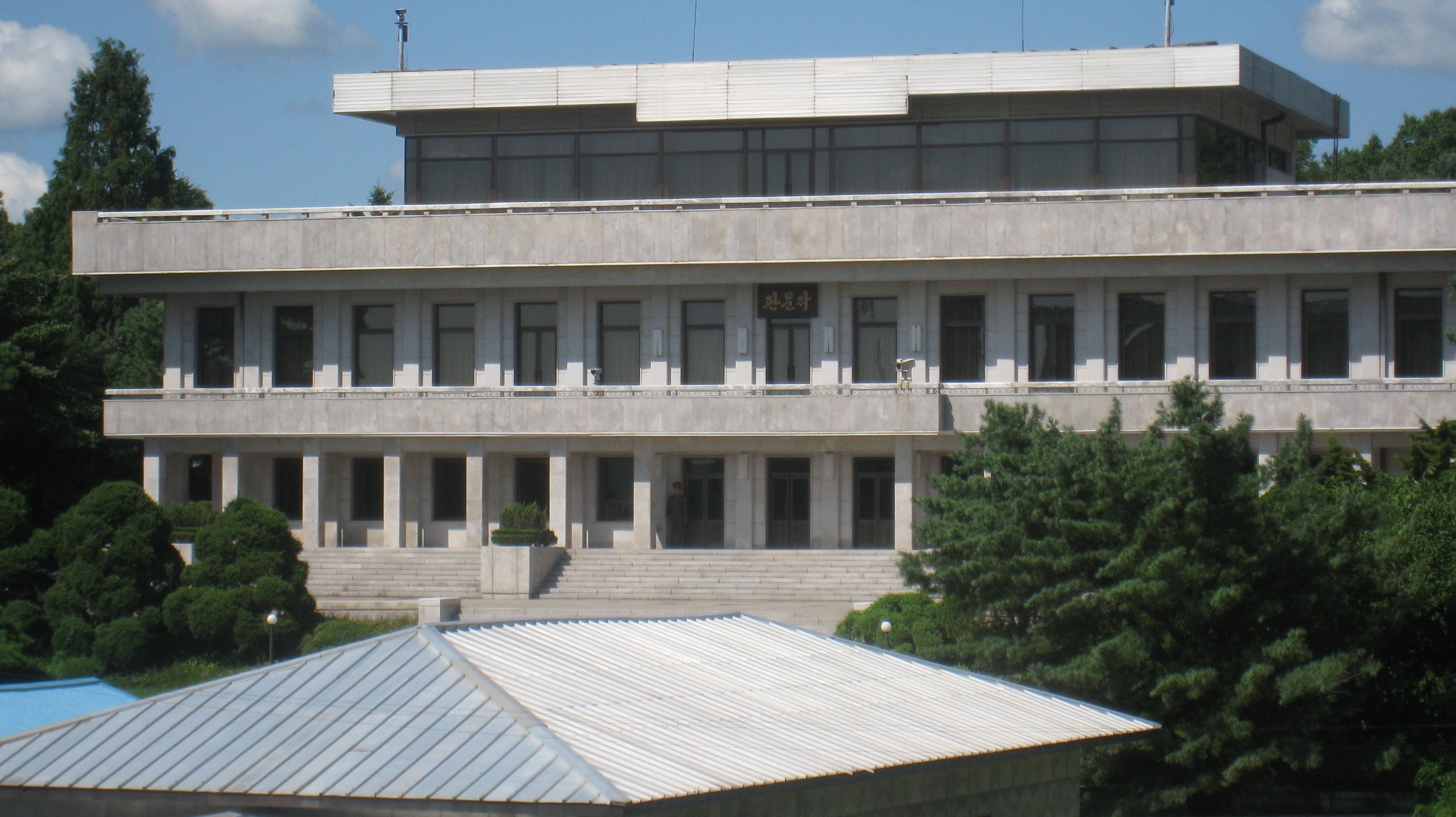 A view of Panmungak, the main North Korean building in the Joint Security Area of the Korean Demilitarized Zone